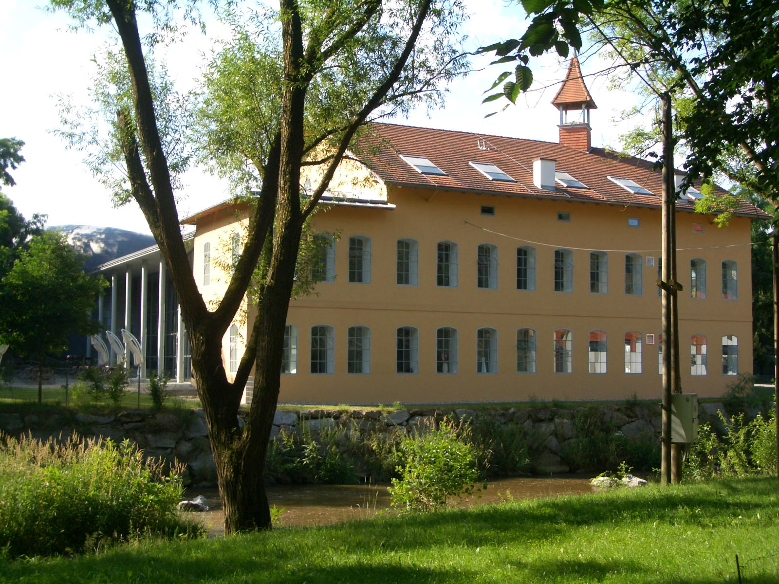 Bruckmühle in Pregarten